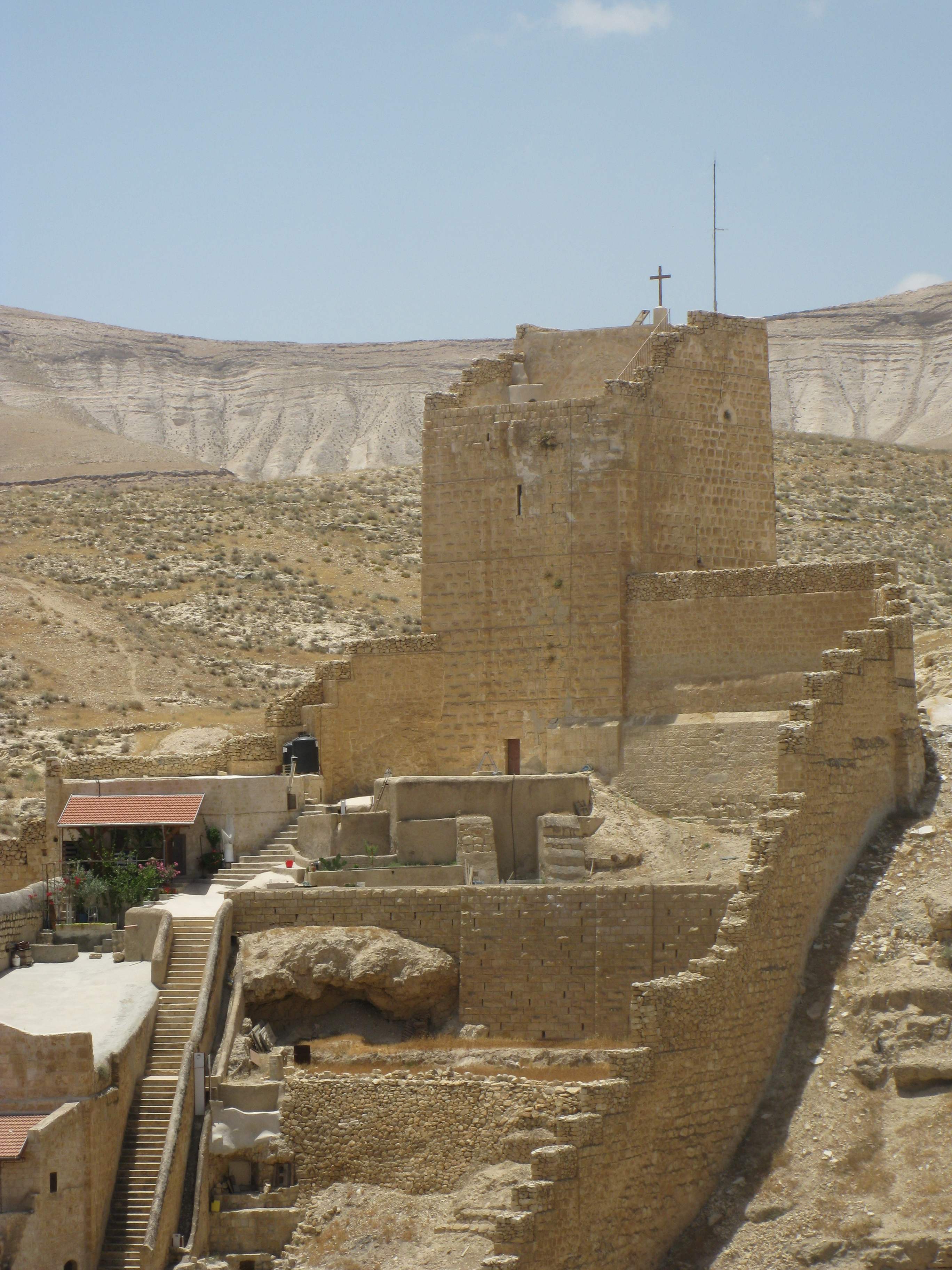 Mar Saba Monestary